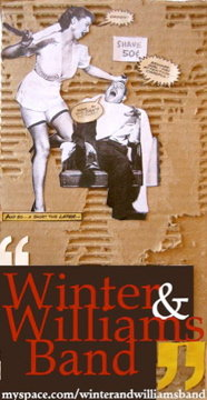 WinterandWilliamsBand_Image